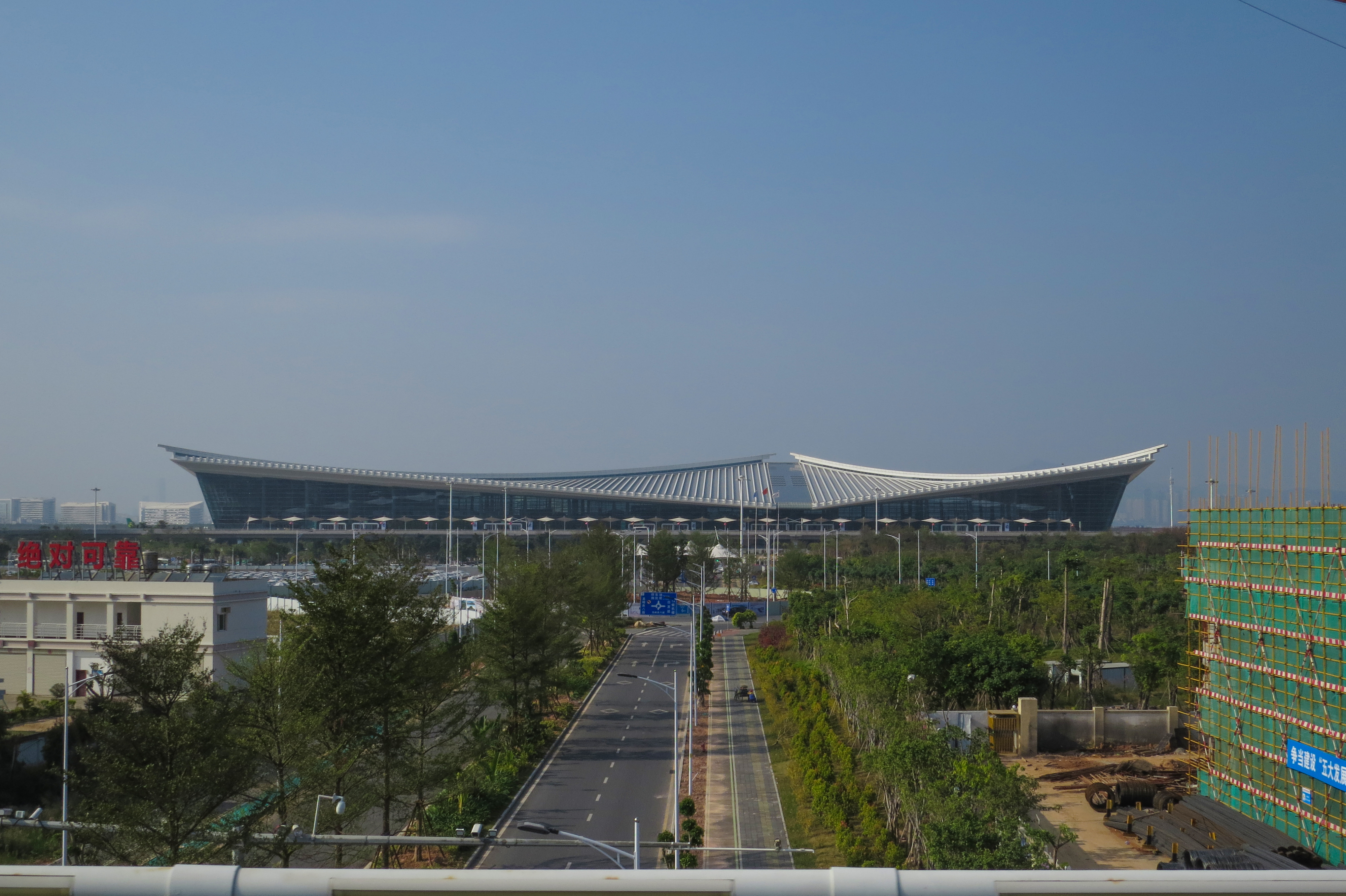 Taken from BRT1.